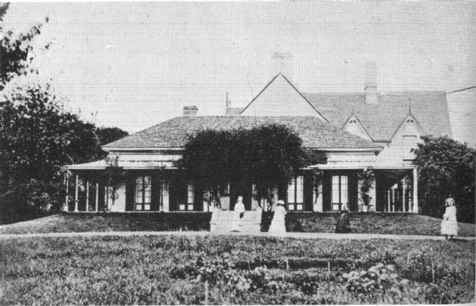 photo of Duntroon Homestead from the 1800s